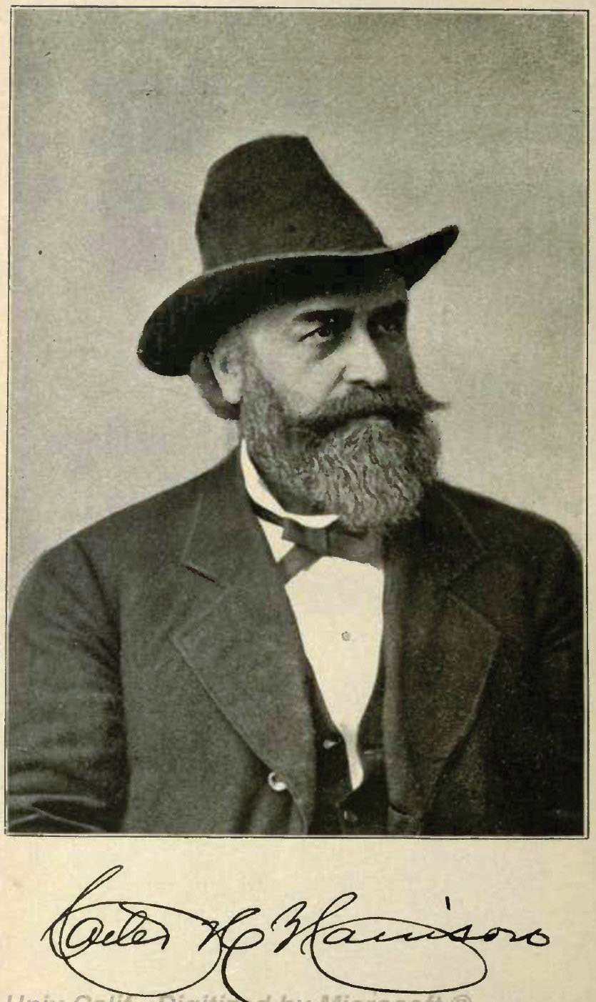 Frontpiece photo of Carter H. Harrison, Sr., 1890 from Harrison, Carter H. (1891) A Summer's Outing and The Old Man's Story, Chicago: Dibble Publishing